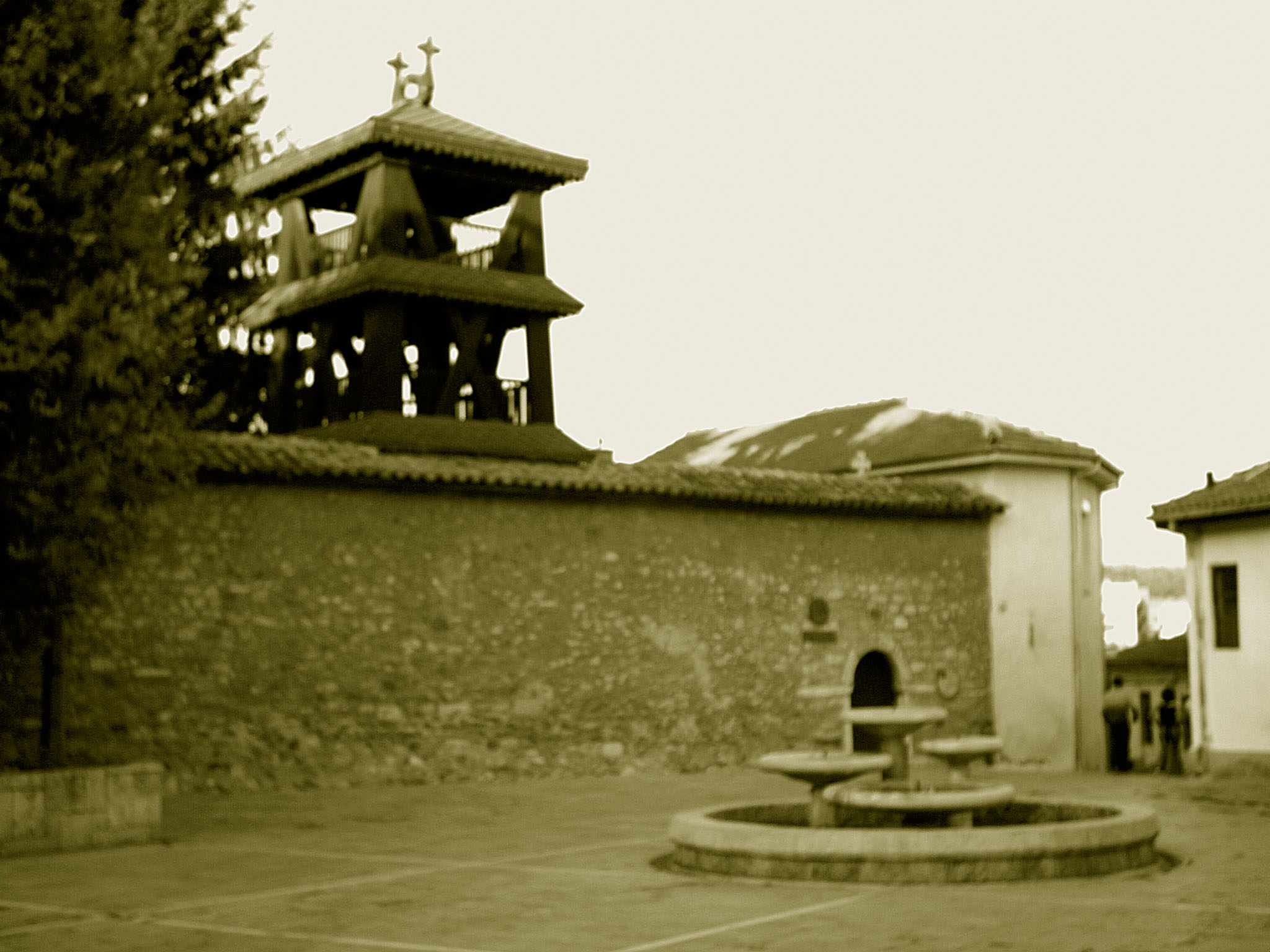 Church of Holy Salvation in Skopje, Macedonia